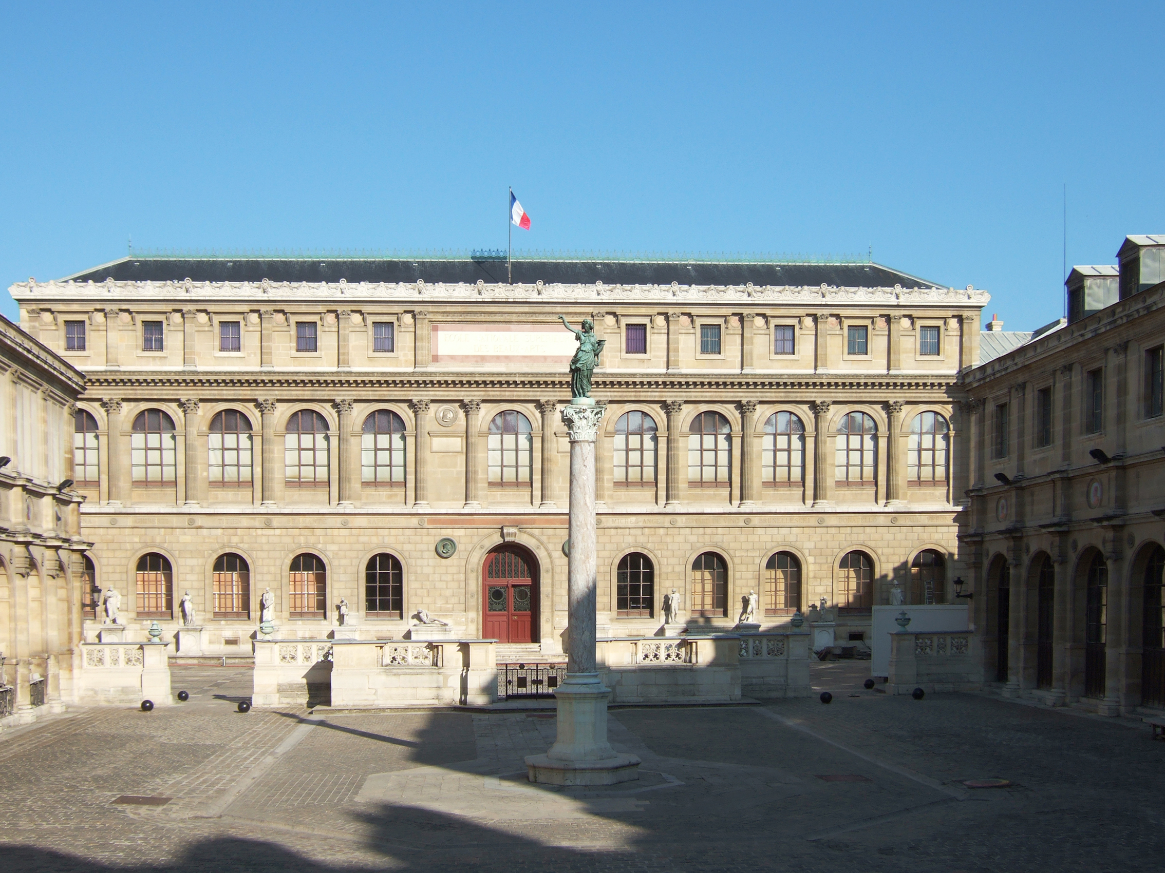 Ecole nationale superieure des Beaux-Arts, Paris, Ensba, Palais des Études